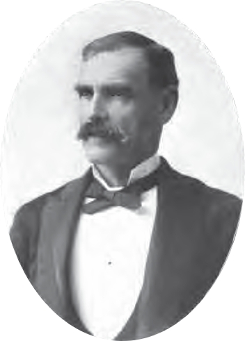 Alexander Oswald Brodie, fifteenth governor of the U.S. state of Arizona.